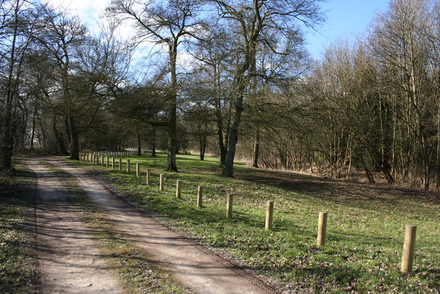 Ropsely Rise Wood